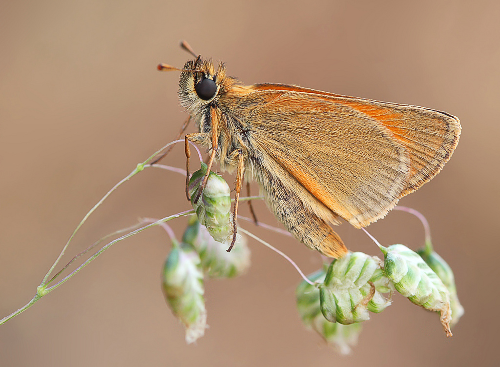 Thymelicus sylvestris Please make a view full size of my photos... thanks! :) I used Av - F6.3, ISO - 100, Tv - 0.6Sec.